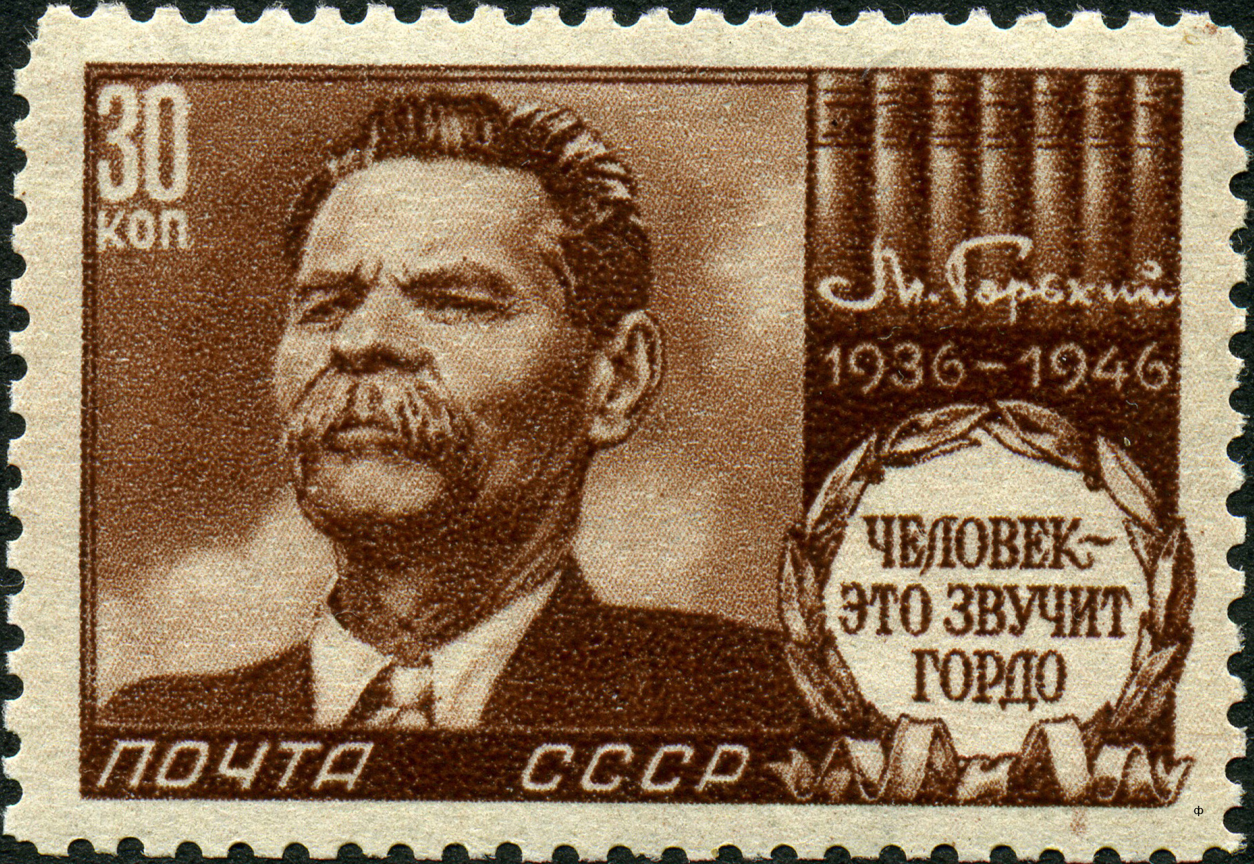 Maksim Gorky in a former USSR stamp, CPA 1053